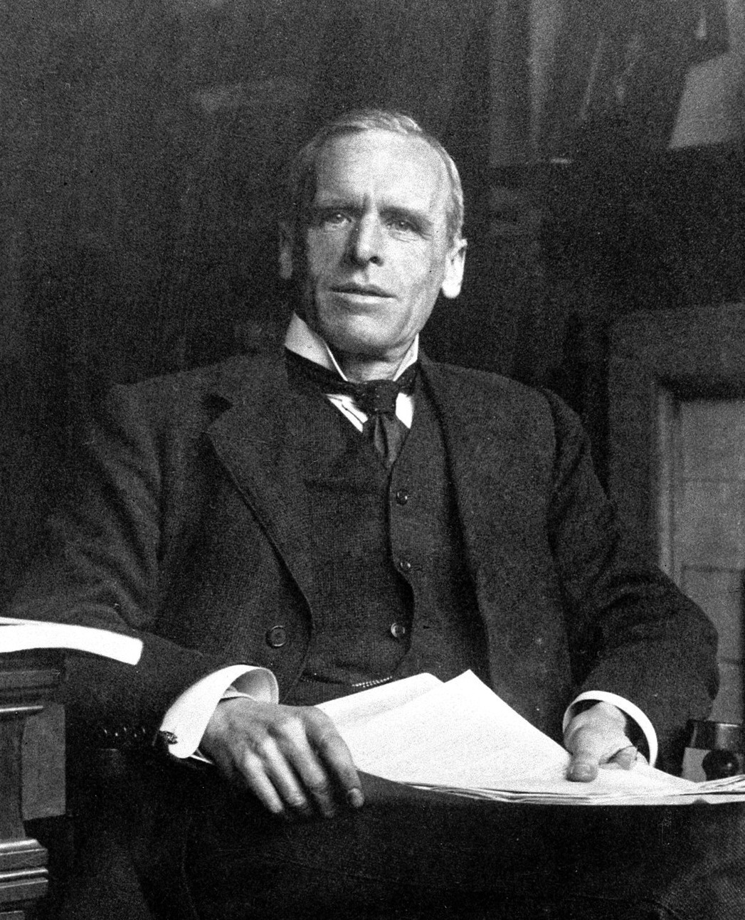 Source: Journal of Endocrinology [1] (pdf) Description: Professor Ernest Starling of University College, London (1866-1927)